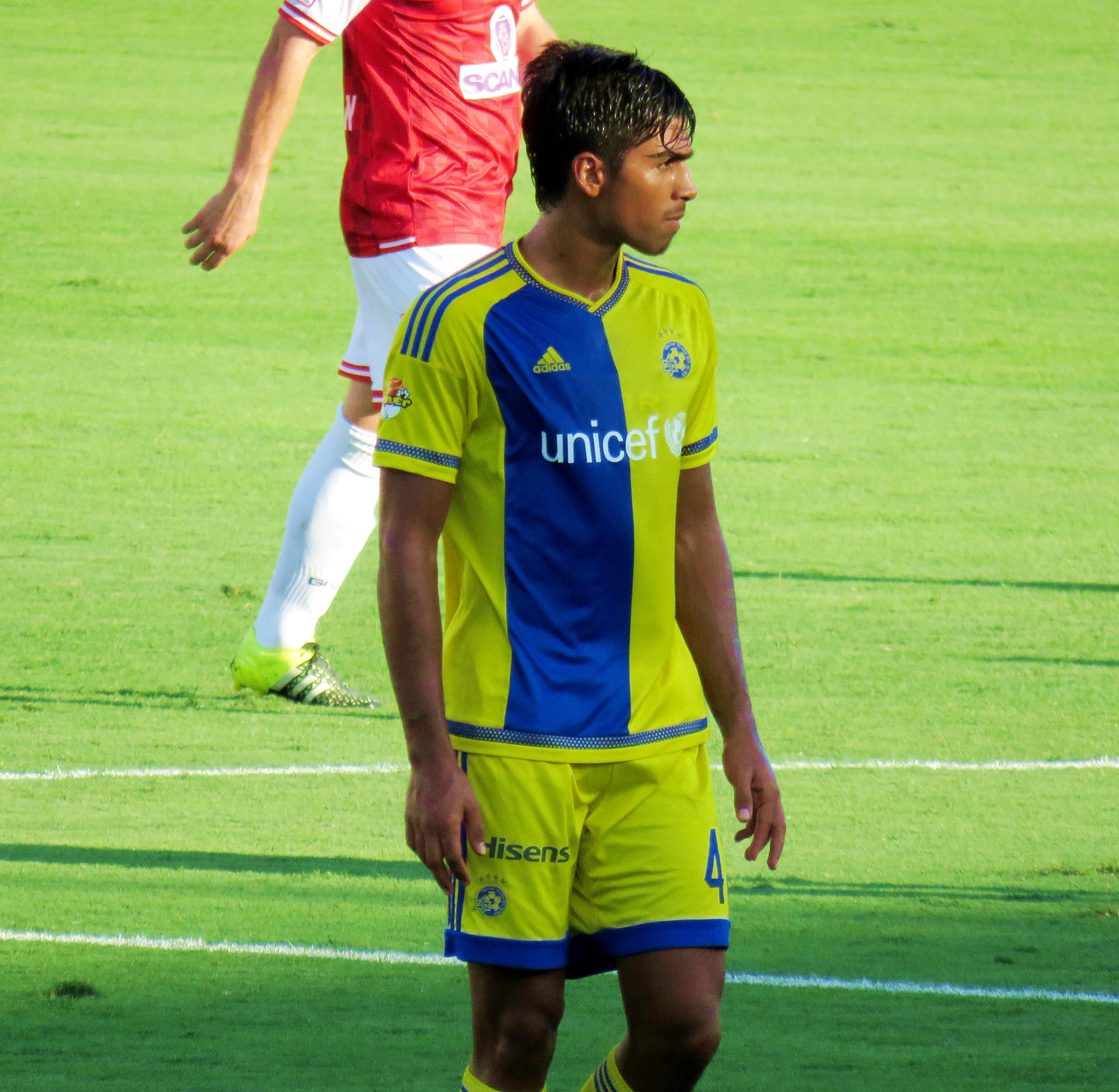 Maccabi Tel Aviv VS. Bnei Sakhnin, 22 August 2015